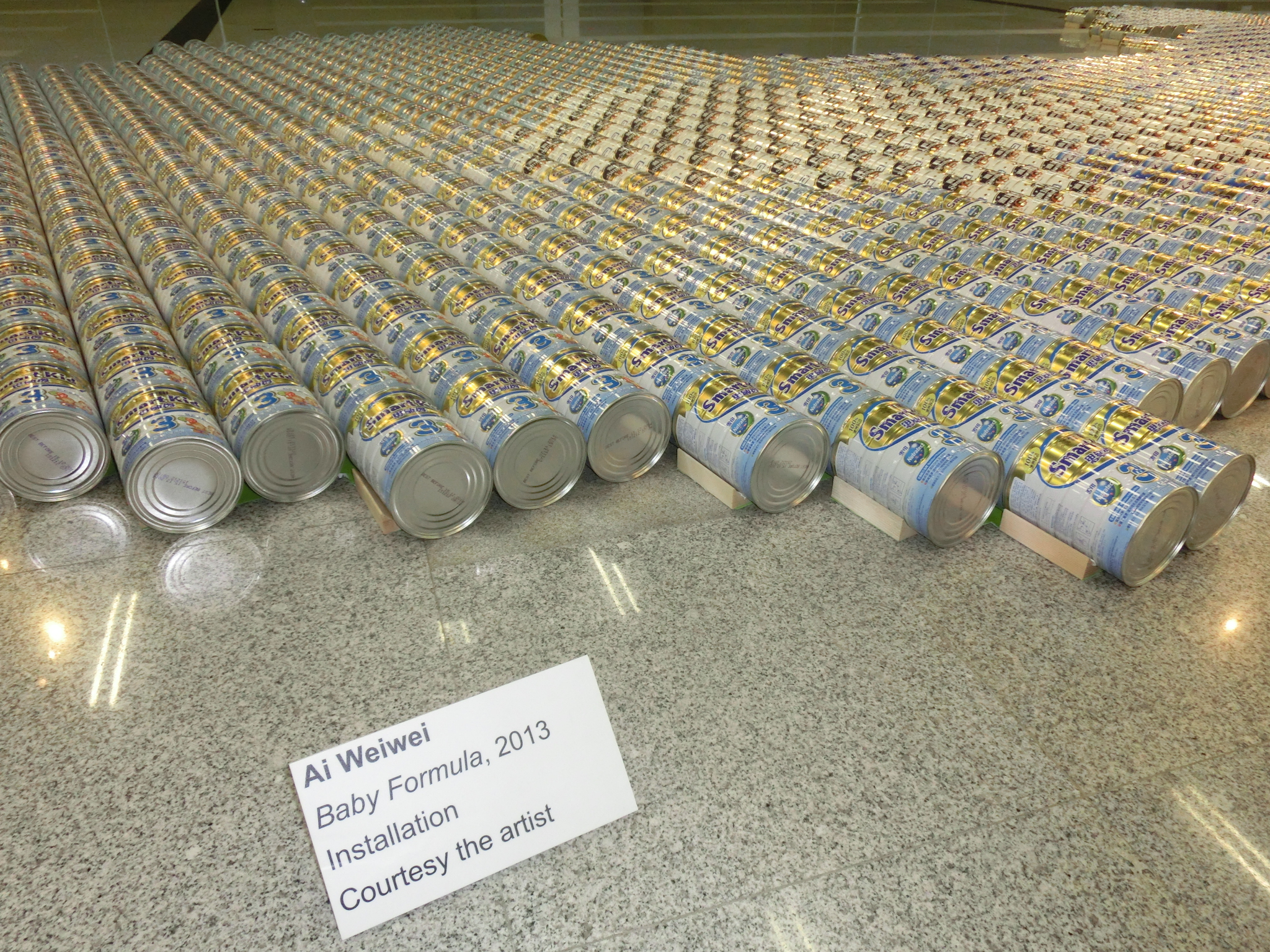 Installation art of Mr Ai Weiwei - Baby Formula, 2013